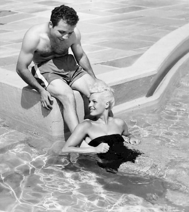 Photo of Jake and Vickie LaMotta in 1950.